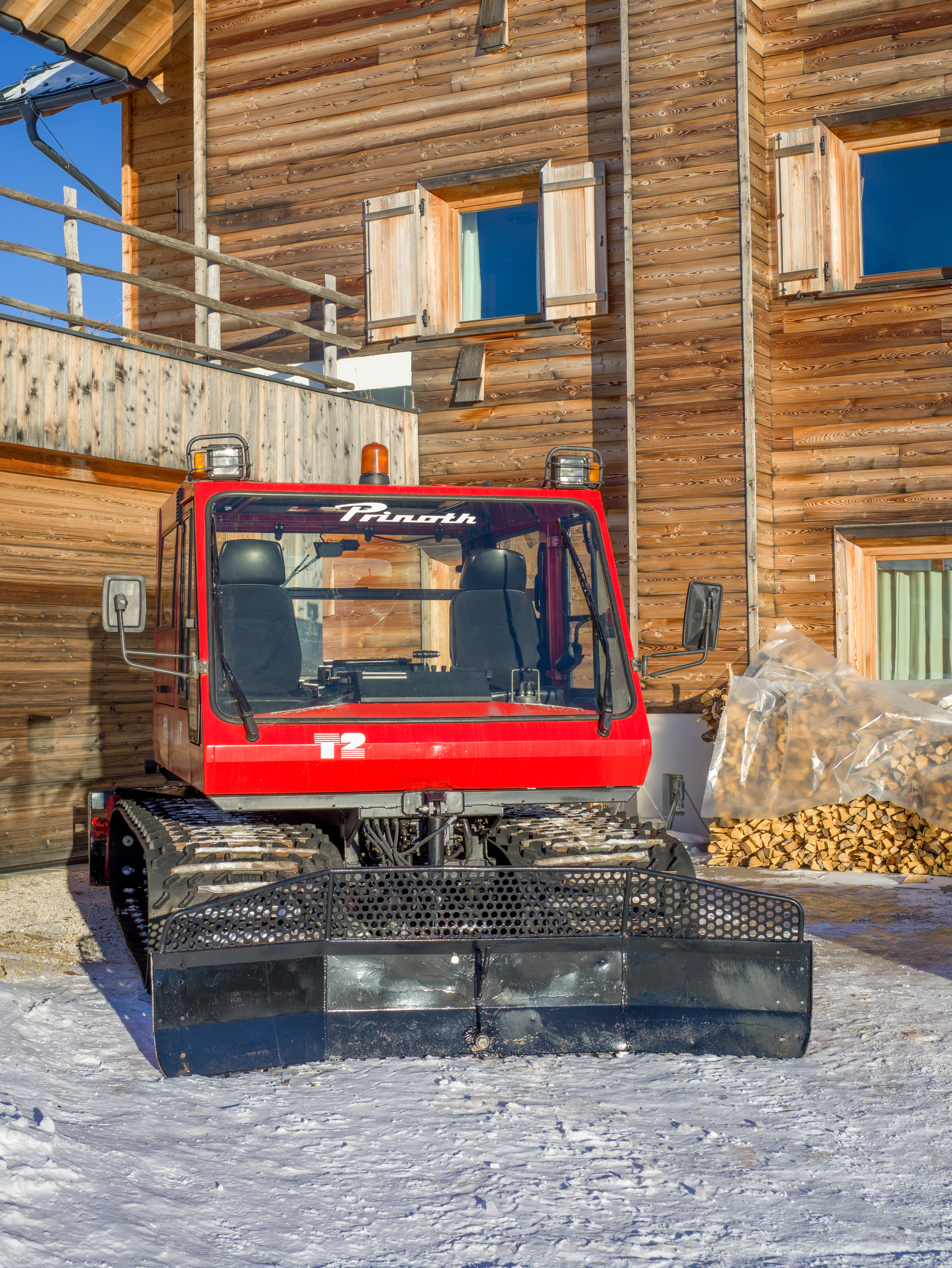 Snow groomer Prinoth T2 at the Raschötzhütte in South Tyrol